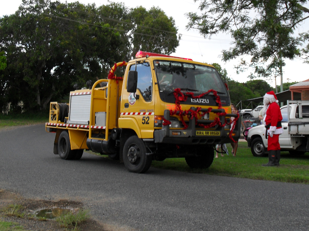 Santa and the Keppel Sands Bush Fire Brigade handing out lollies to local kids on Christmas Eve